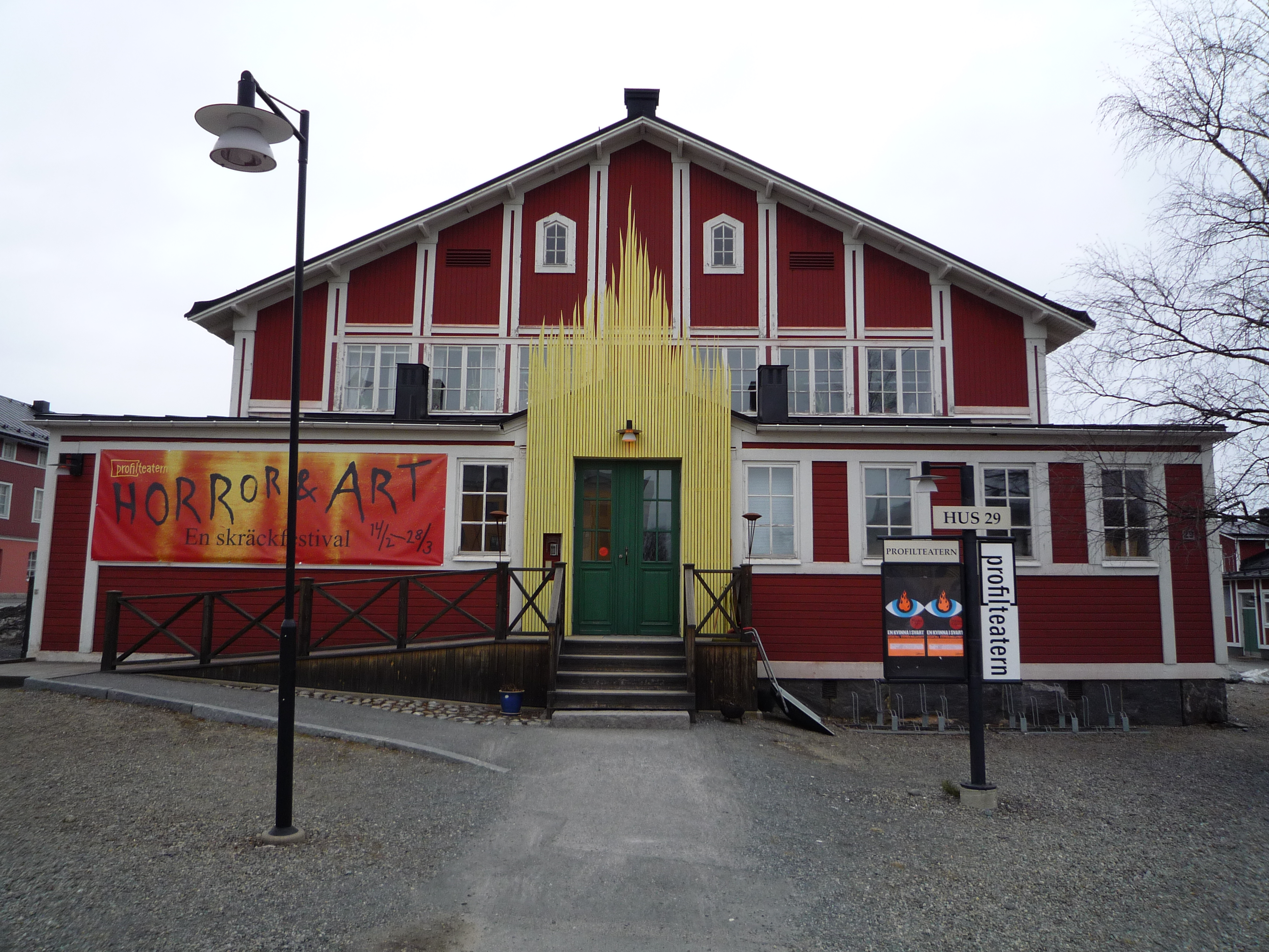 Horror festival March–April 2014 at Profilteatern, situated in Umestan, Umeå, Sweden